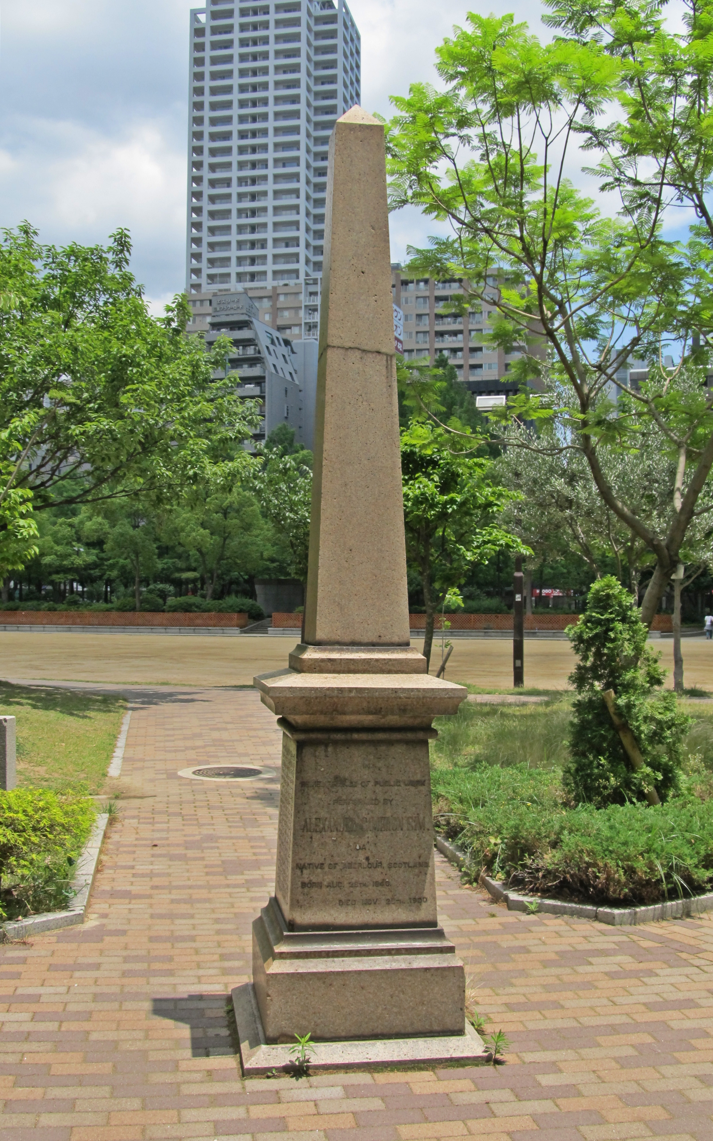 Monument of Alexander Cameron Sim (Higashi-yuenchi Park,Chūō-ku,Kobe,Hyogo,Japan).Built in 1901[1].